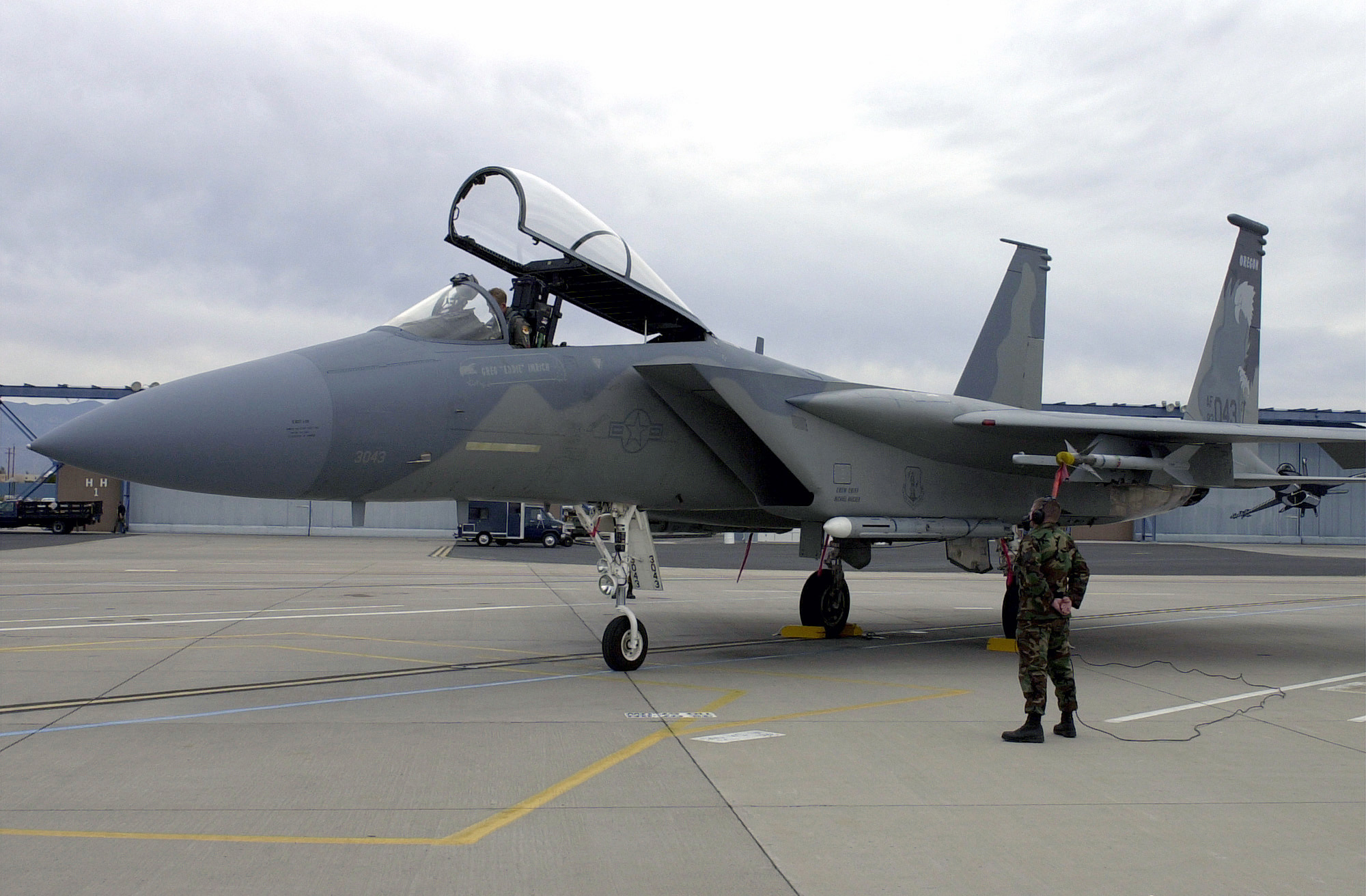 Oregon Air National Guard: An F-15 Eagle from the 173rd Fighter Wing (FW), Oregon Air National Guard (OANG), deployed to the 162nd FW, Arizona Air National Guard (AZANG) for dissimilar air combat training (DACT), awaits take off. The 162nd FW flies the F-16 Fighting Falcon, note the painting on the hanger door in the background. The Eagle is armed with AIM-9 Sidewinders and AIM-120A Advanced Medium Range Air-to-Air Missiles (AMRAAM). (Released to Public)